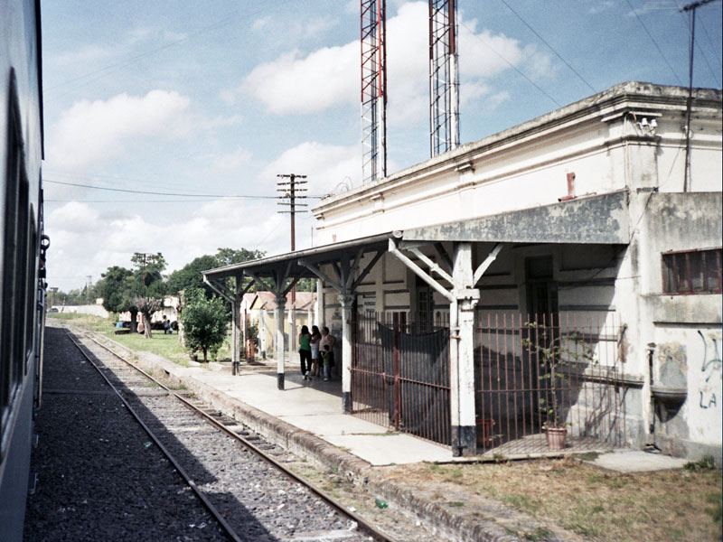 Pilar Train Station